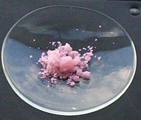 A sample of erbium(III) chloride hydrate photographed in sunlight. Photo taken November 2004, by User:Walkerma.